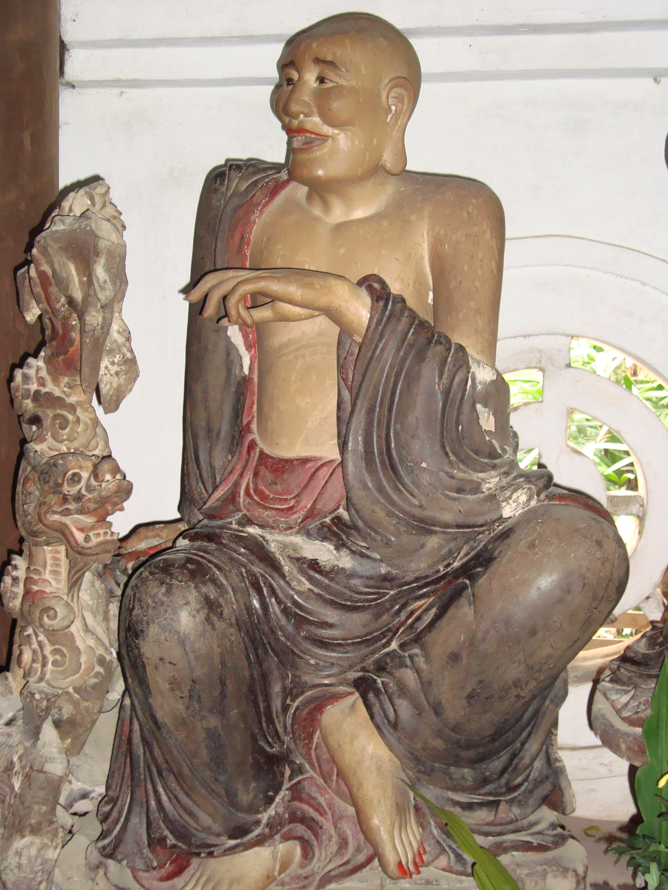 One of the eighteen arhat statues at Tây Phương Buddhist Temple, Thạch Thất District, Hanoi, Vietnam.